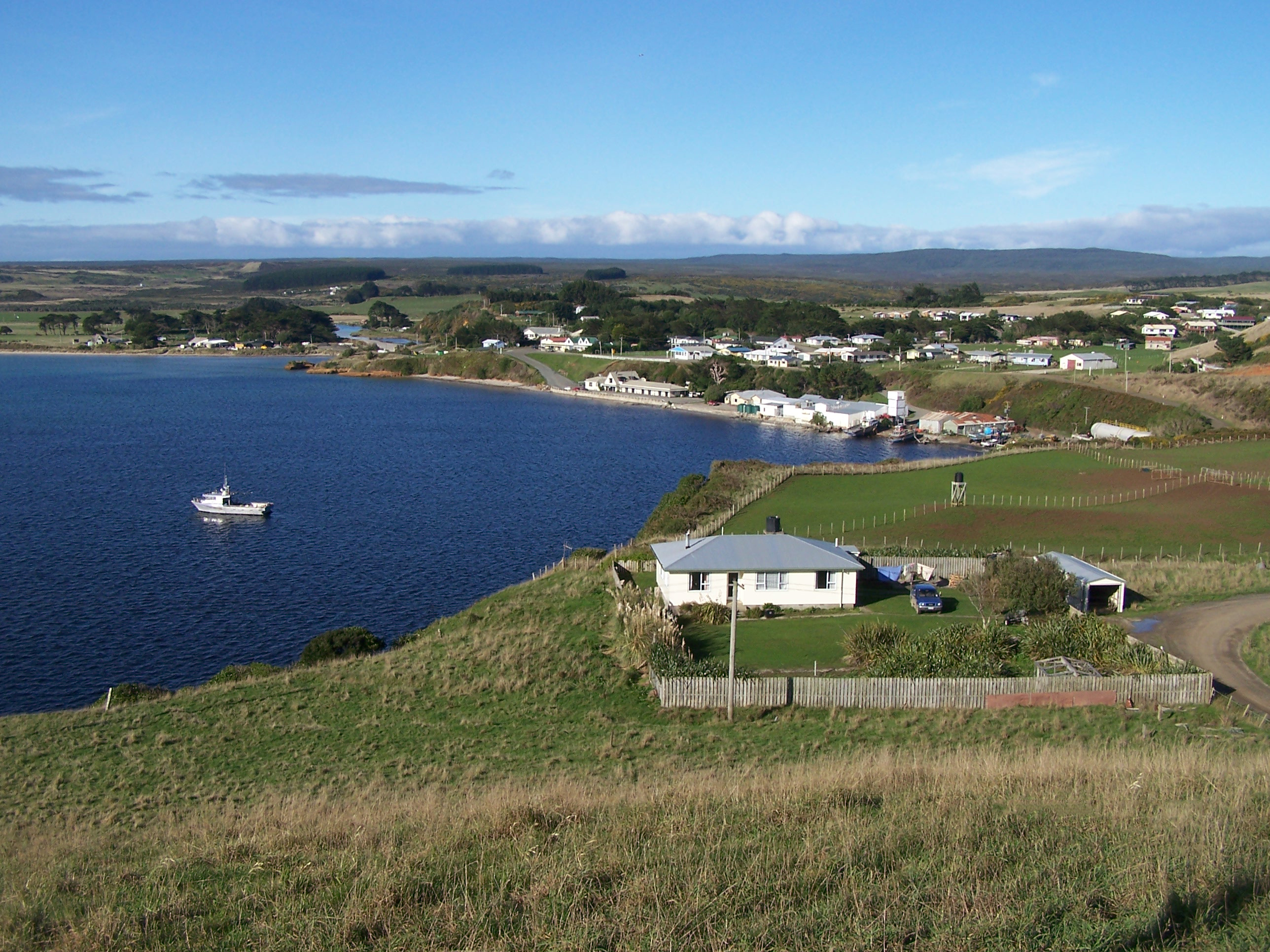 Town of Waitangi on Chatham Island. Taken from just north of town center, or coords -43.946094,-176.562055